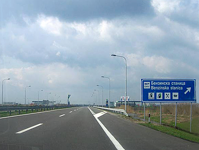 E70 in Serbia, near the Croatian border